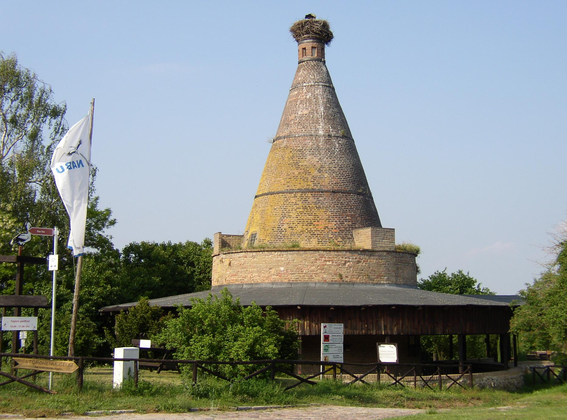 Former brickyard in Wriezen-Rathsdorf in Brandenburg, Germany